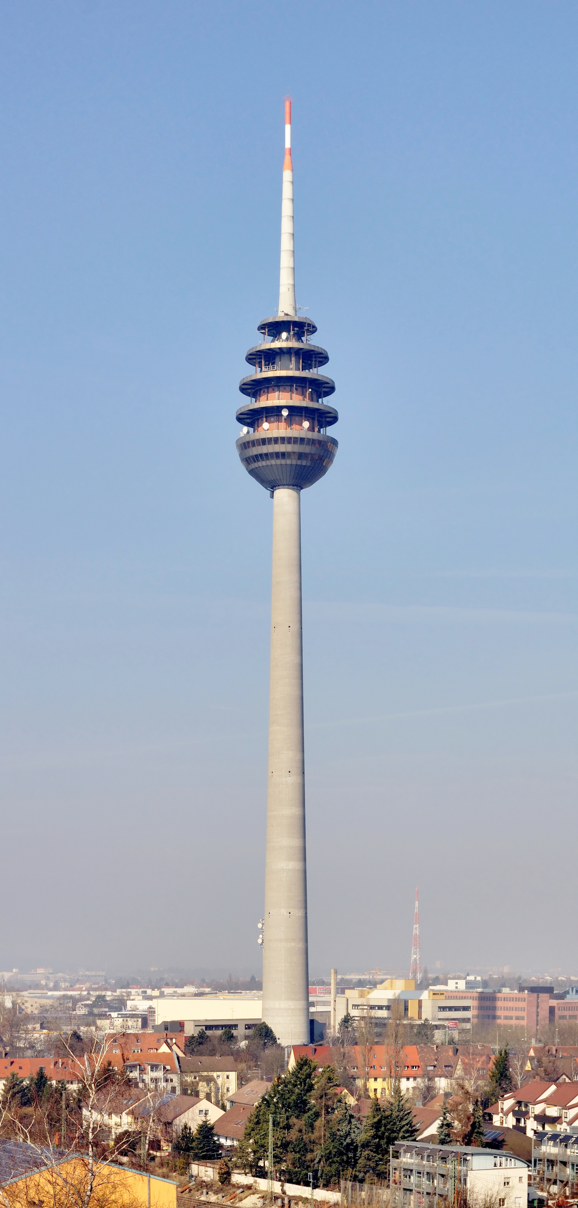 TV-Tower Nuremberg (Fernmeldeturm Nürnberg).